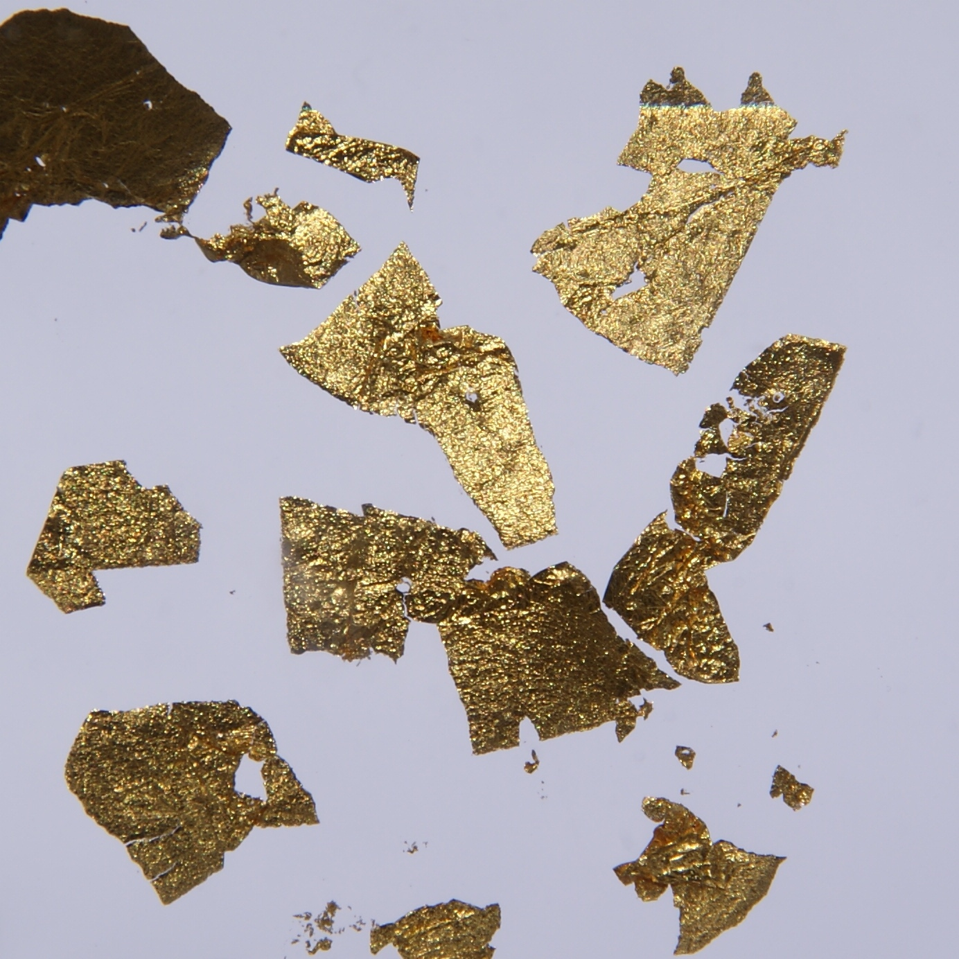 Gold flakes